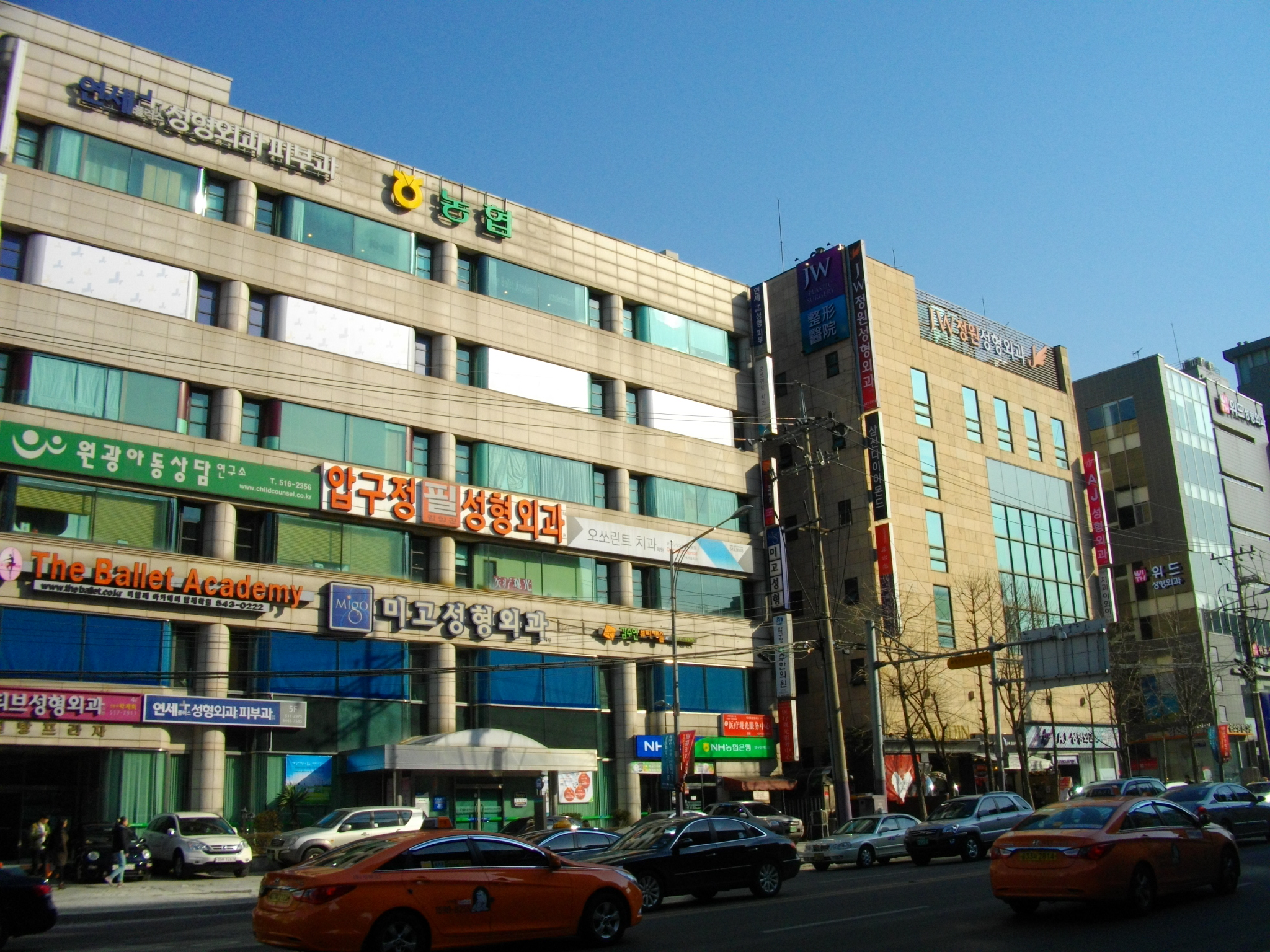 Apgujeong